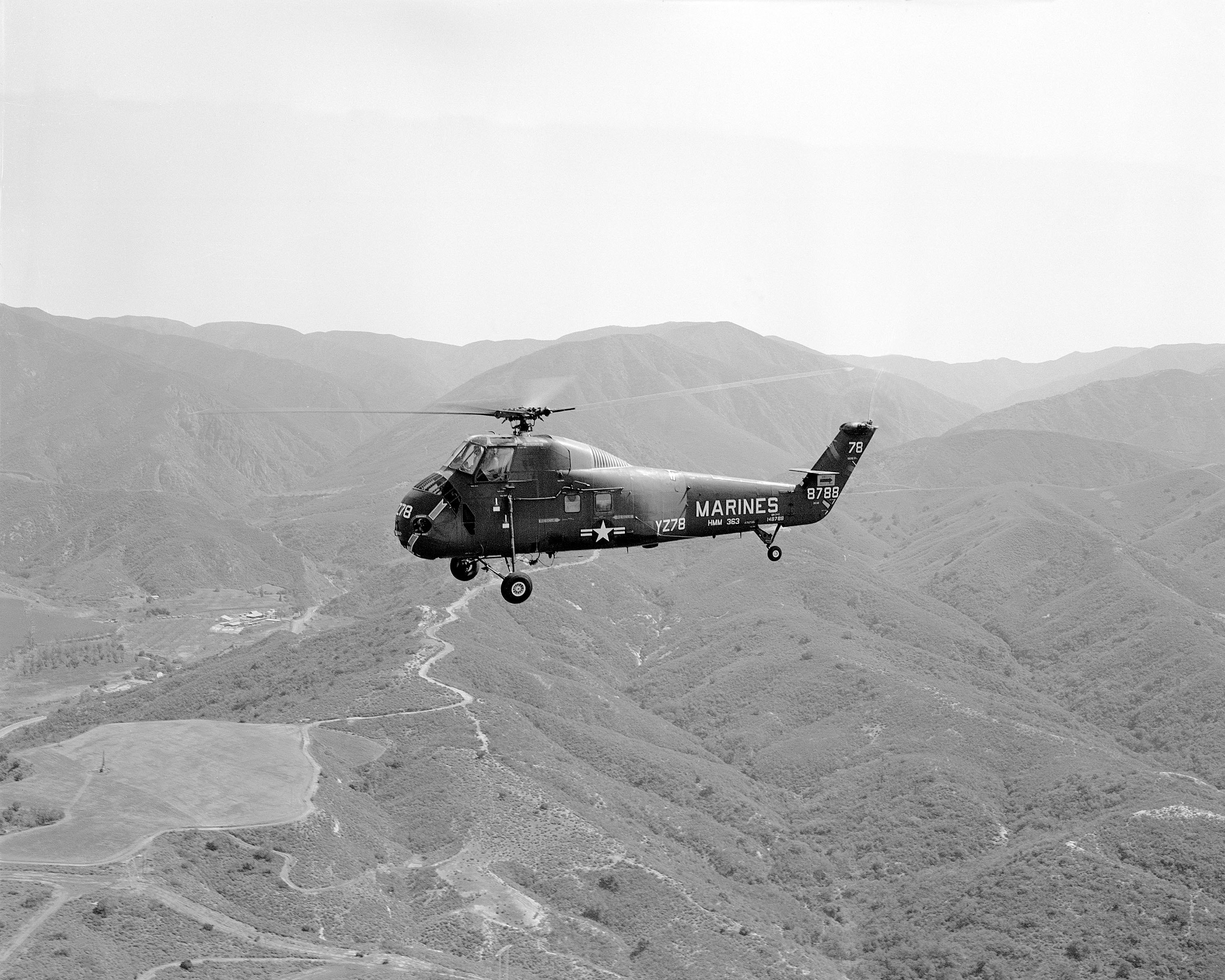 A U.S. Marine Corps Sikorsky UH-34D Seahorse helicopter (BuNo 148788) from Marine medium helicopter transport squadron HMM-363 Red Lions flies through Black Star Canyon, California (USA), on 13 April 1964. HMM-363 was based at Marine Corps Air Station Tustin.